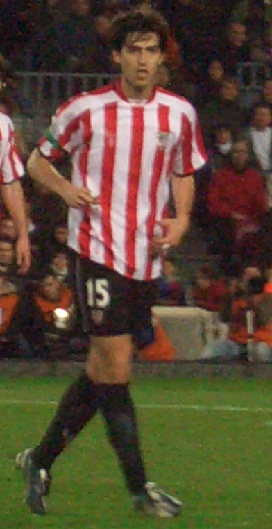 Spanish footballer Andoni Iraola.